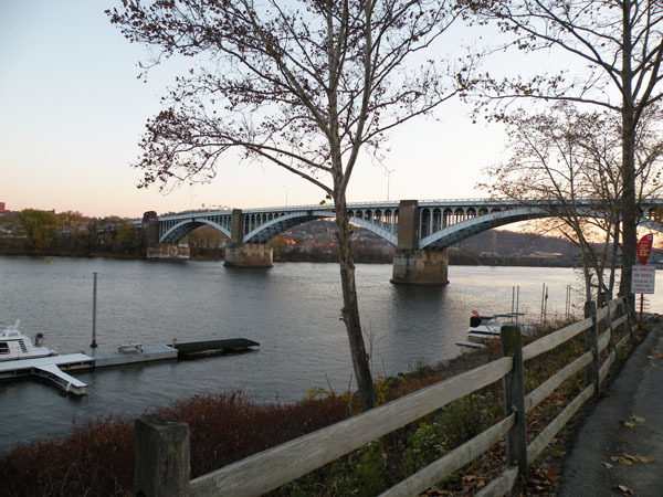 Picture of the Fortieth Street Bridge (Washington Crossing Bridge) over the Allegheny River in Millvale, Pennsylvania, and Lawrenceville (Pittsburgh). The bridge was built in 1923, and is listed on the National Register of Historic Places.